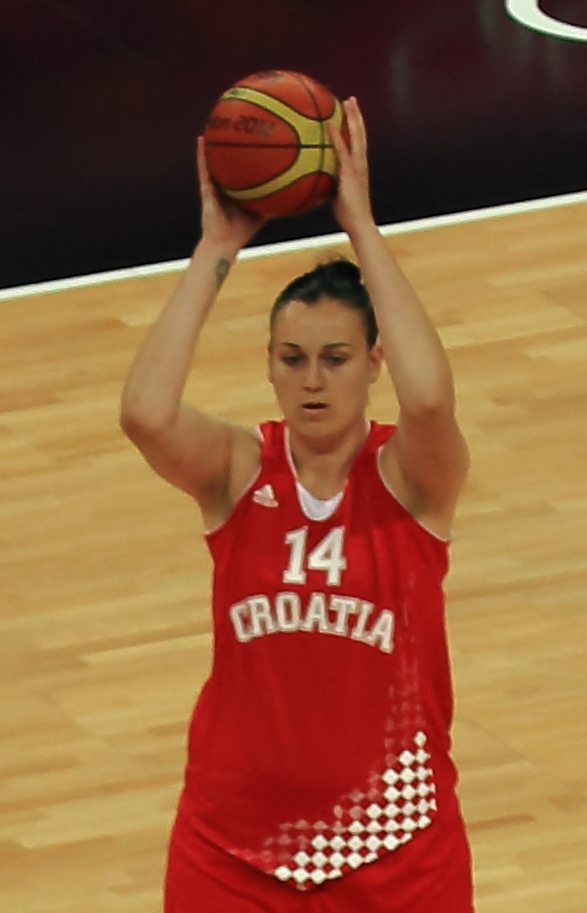 Croatian player Luca Ivankovic looks for the attacking pass, Croatia eventually won this Olympic premilinary Group A match 75-56